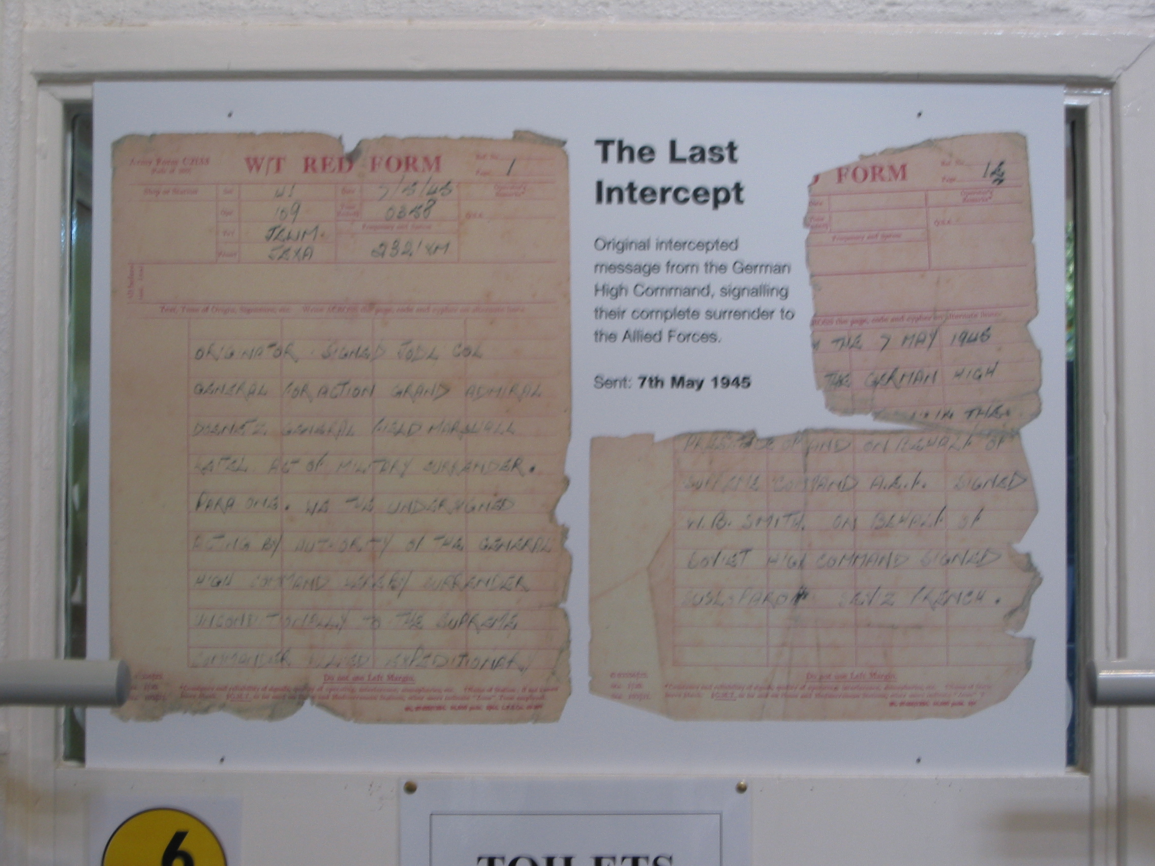 Bletchley Park last German intercept